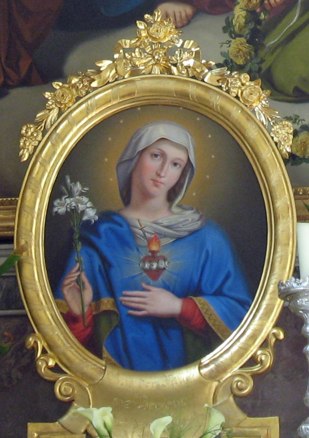 Painting of Virgin Mary by Johann Burgauner 1849